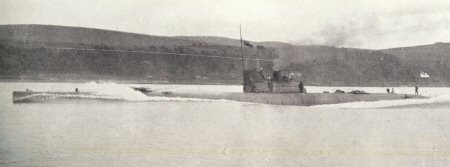 Scan of reprint in a book entitled "From The Romance of A Submarine" by (1919) G Gibbard Jackson